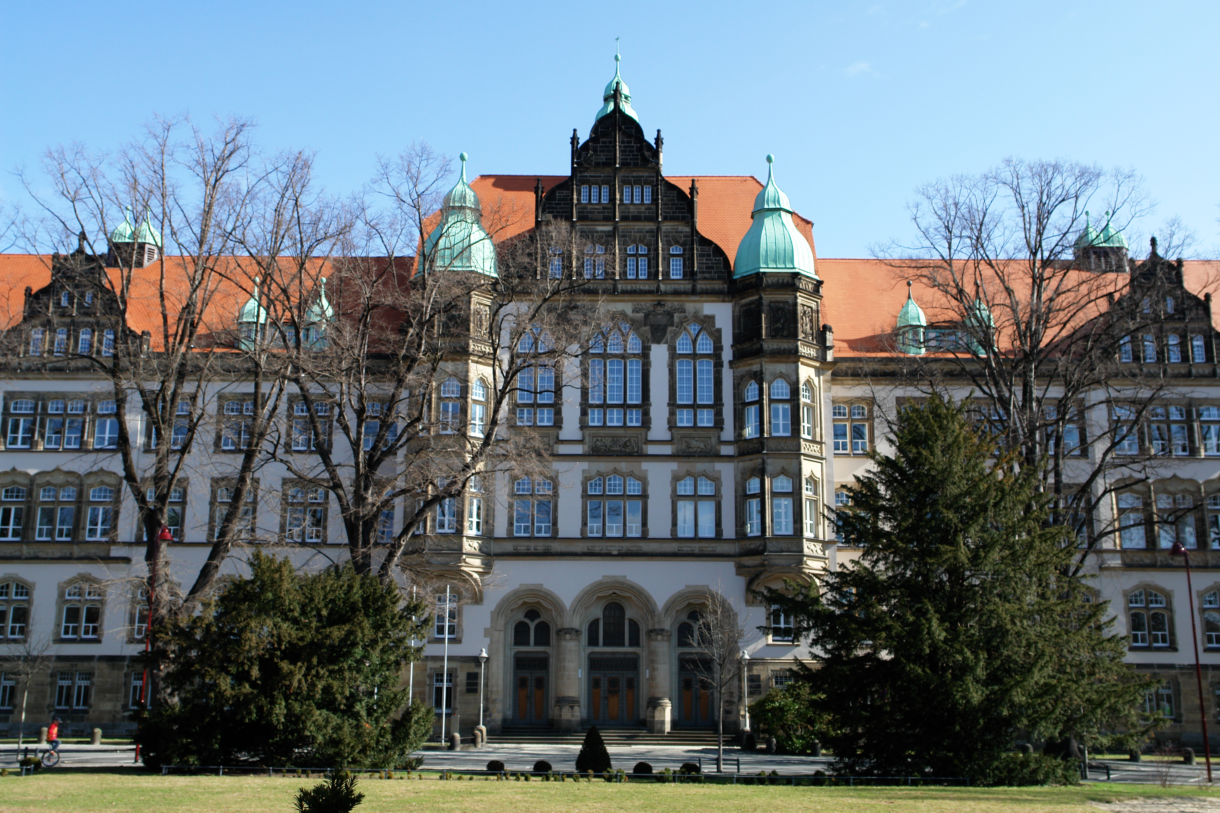 Court of Bautzen in Saxony, Germany.